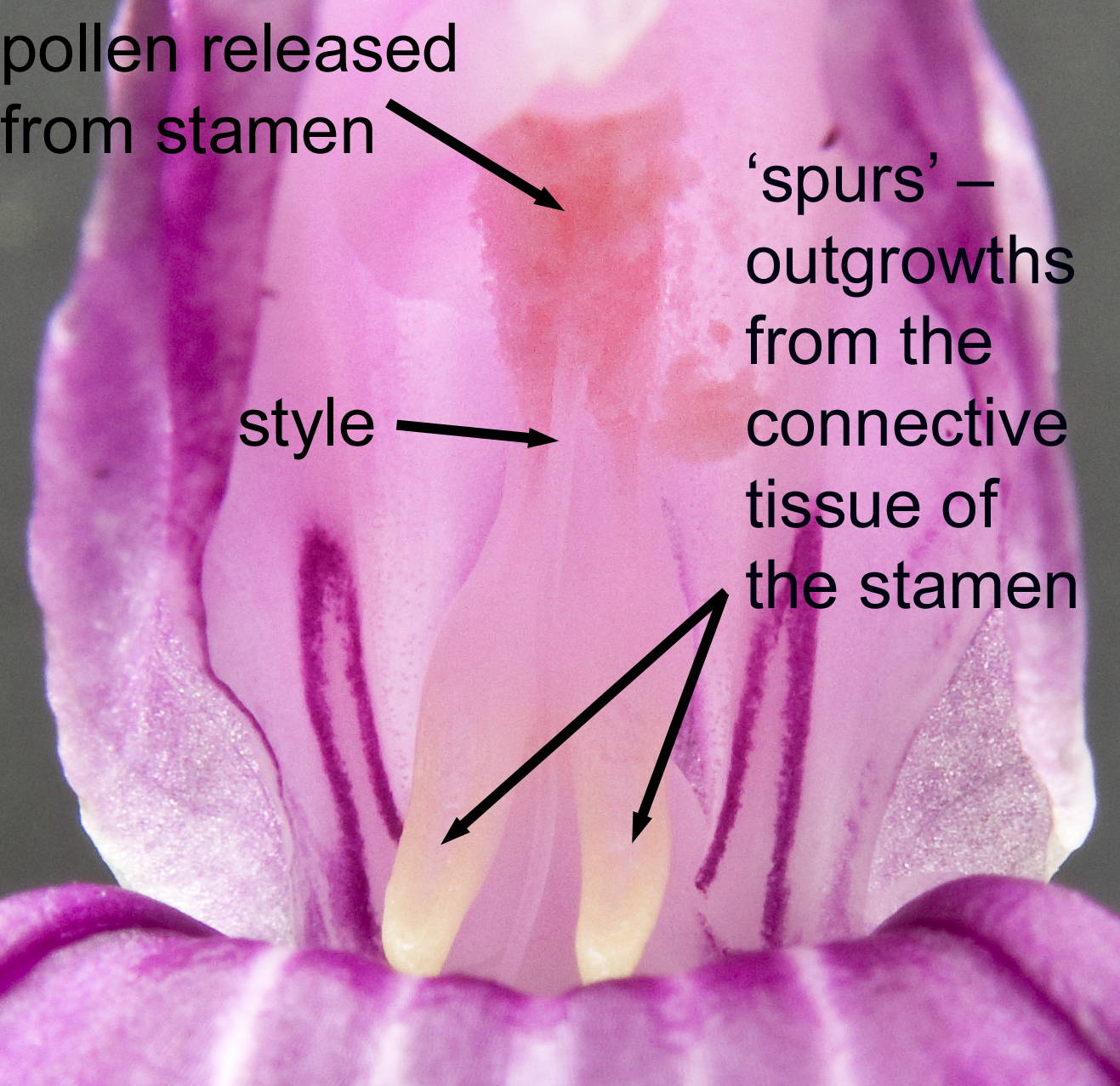 Labelled close-up of the centre of a flower of Roscoea auriculata